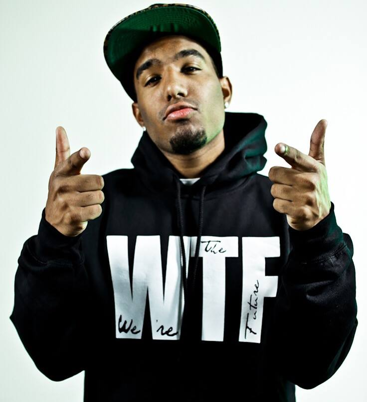 Futuristic